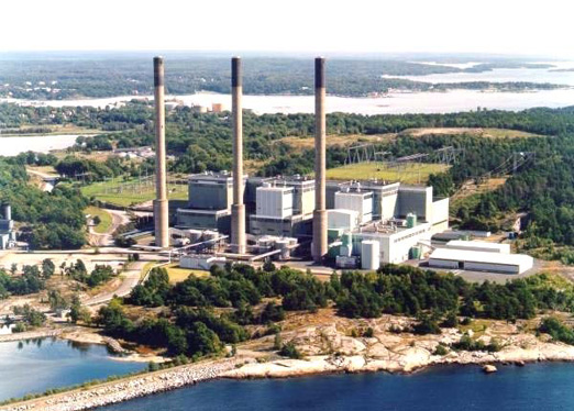 The Karlshamn power plant